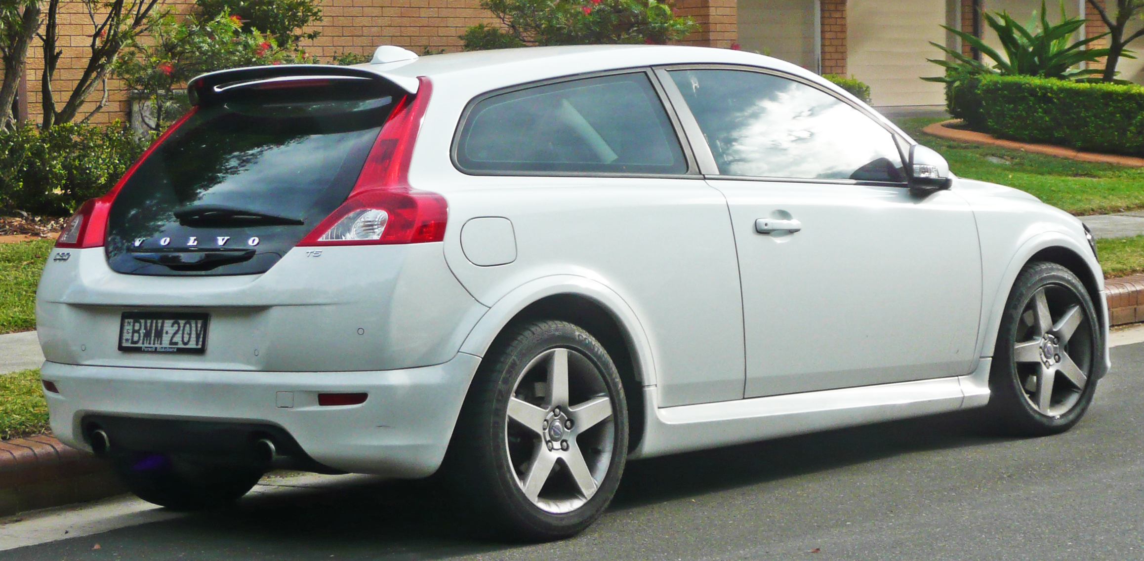 2008–2009 Volvo C30 T5 hatchback. Photographed in Cronulla, New South Wales, Australia.